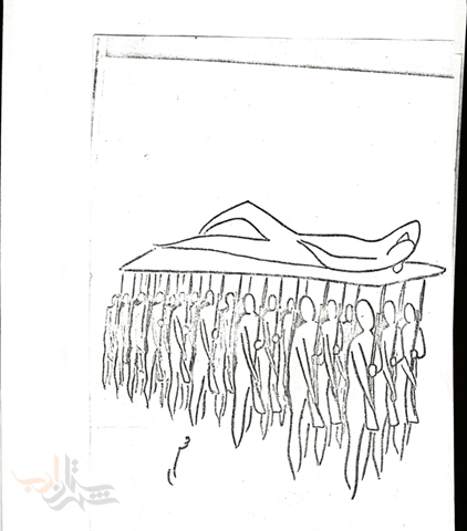 Mohsen Pezeshkian (d: June 1979) cartoon sample